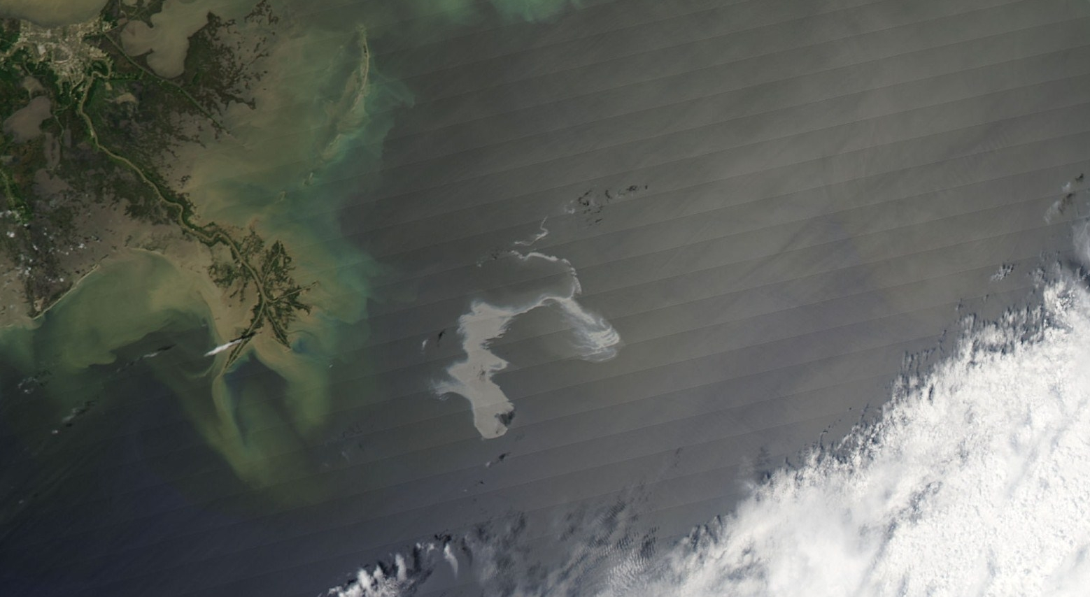 This image is from NASA so it is in the public domain. It was obtained from here.